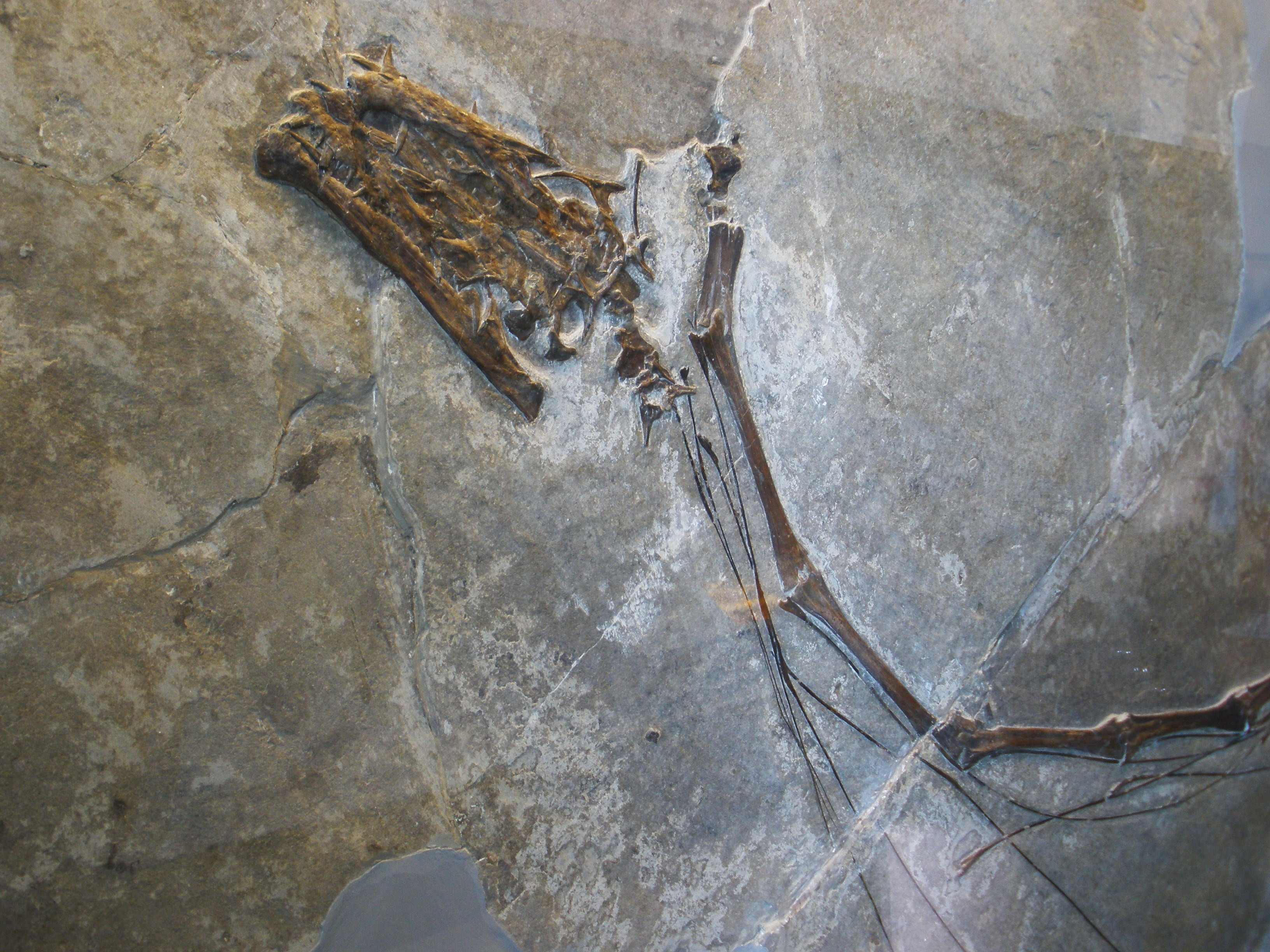 fossil tanystropheus